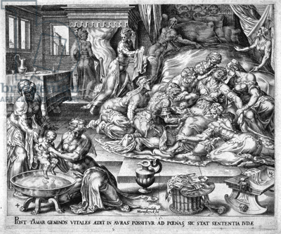 Tamar giving birth to Pharez & Sarah. Midwife (old woman) delivers Sarah while twin brother is washed. Centre front: basket of swaddling bands is ready to wind round infants. Tamar is sitting on a birthing stool. Copperplate engraving by Hermann Muller after Marten van Heemskerk (1498-1574).